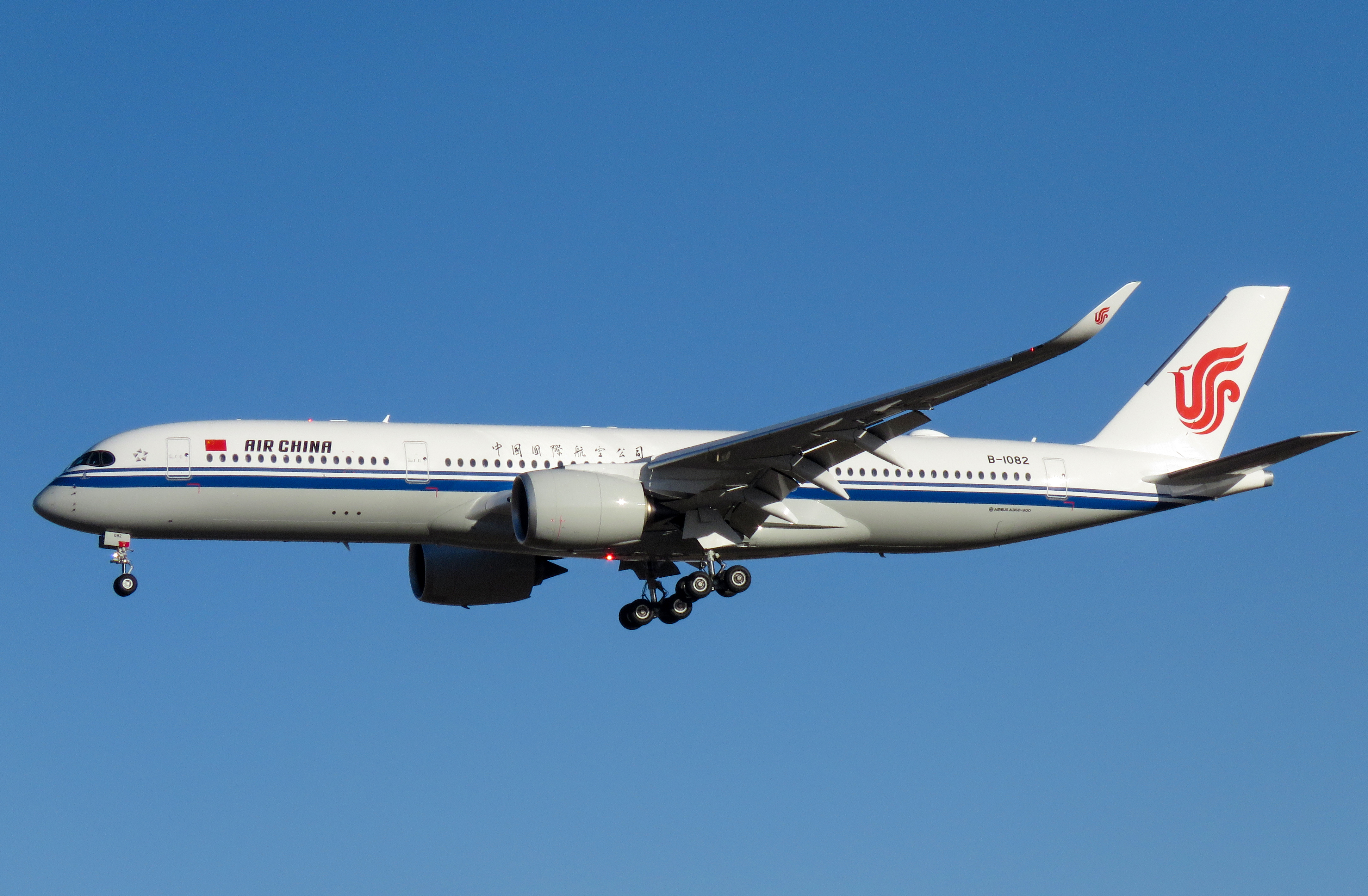 Air China 1520 from Shanghai Hongqiao, making a "profile photo" at runway 01. Nearly frozen under -6°C for this fellow which was delivered fresh from Toulouse a week ago!